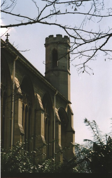 Turret of St Paul's Chapel, University of Gloucestershire, Swindon Road, Cheltenham, Gloucestershire